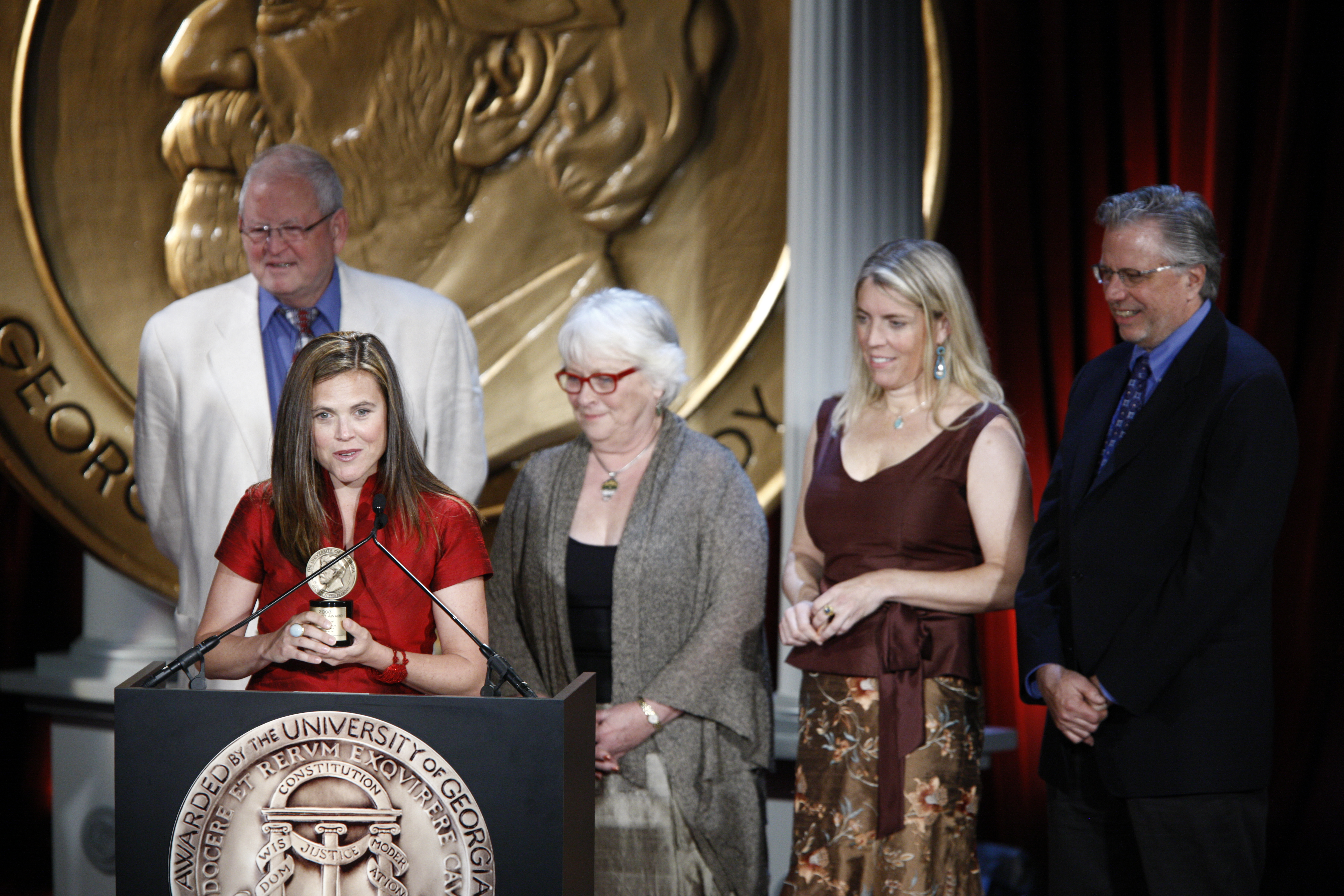 PHOTO CREDIT: ANDERS KRUSBERG / PEABODY AWARDS Paul Taylor, Irene Taylor Brodsky, Sally Taylor, Crofton Diack and Geof Diack 69th Annual Peabody Awards Luncheon Waldorf=Astoria Hotel New York, NY USA May 17, 2010